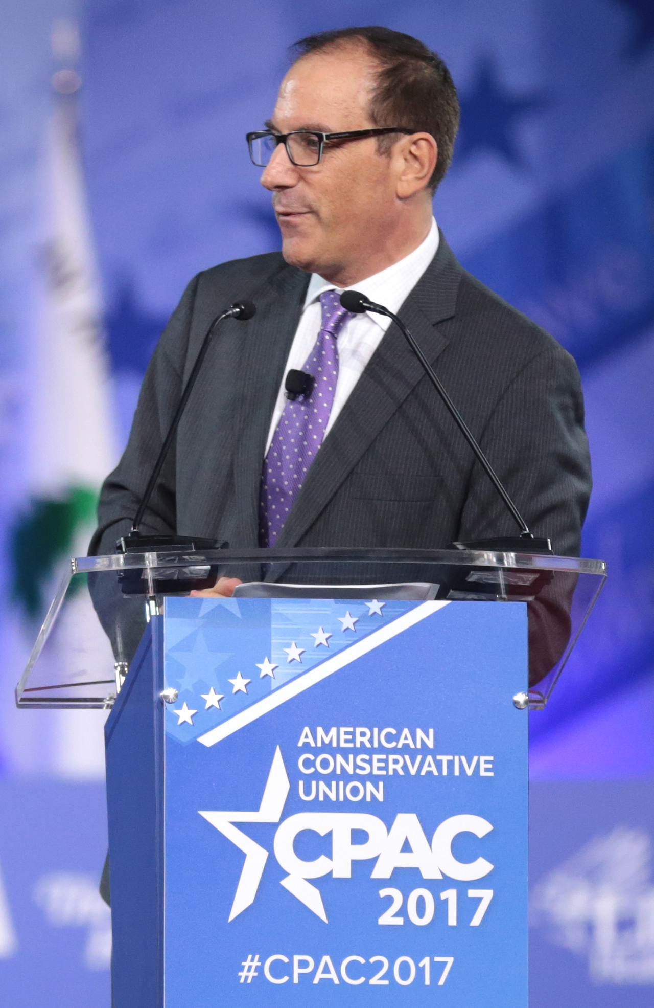 Larry O'Connor speaking at the 2017 CPAC in National Harbor, Maryland.